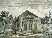 The first stone theatre of Győr (19th engraving)